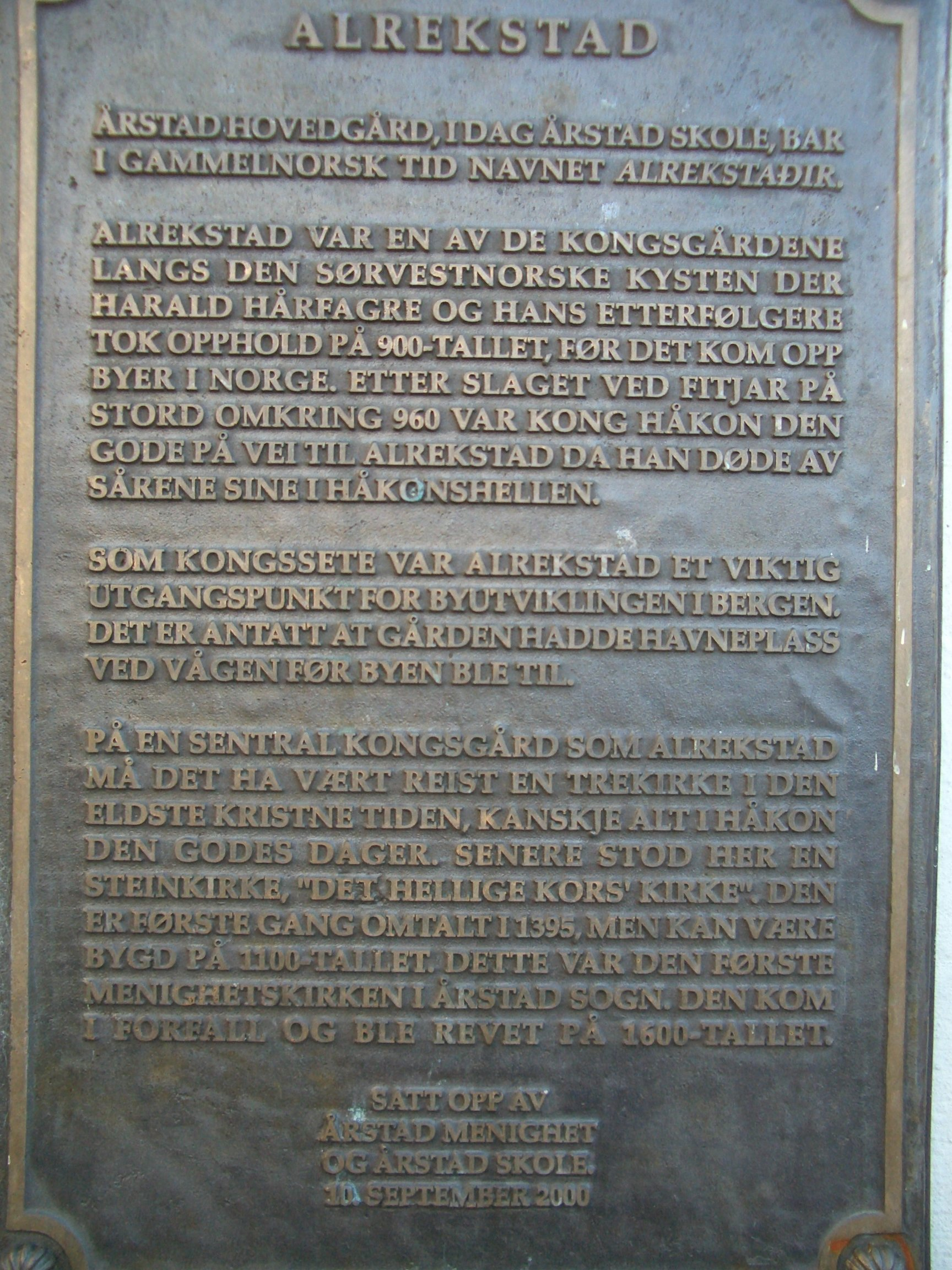 This is a plaque with some of the history of the Norwegian king's farm Alrekstad, located in Årstad in Bergen, Norway. I took the photo, and hereby release it into the public domain.